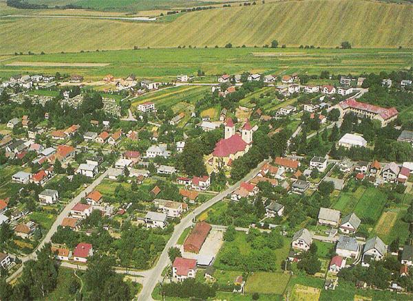 Višňové